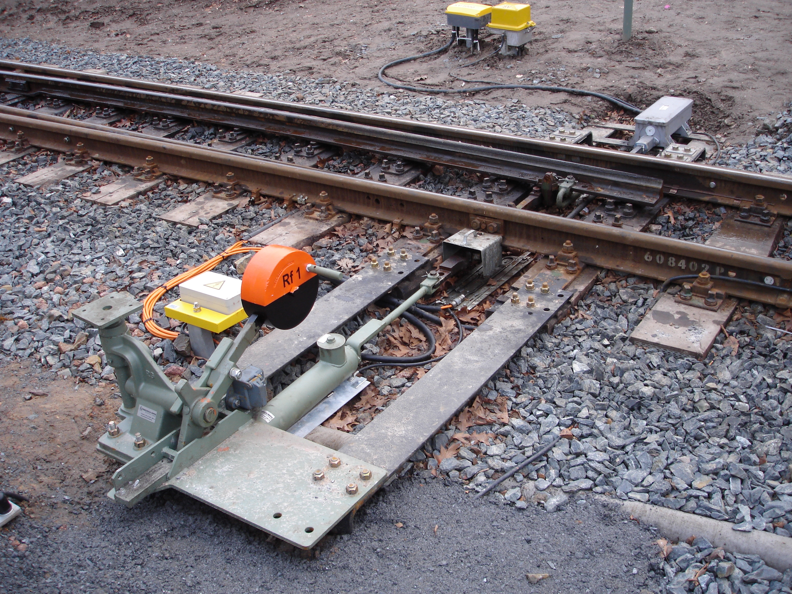 Fallback switch in Dippoldiswalde station, Germany.